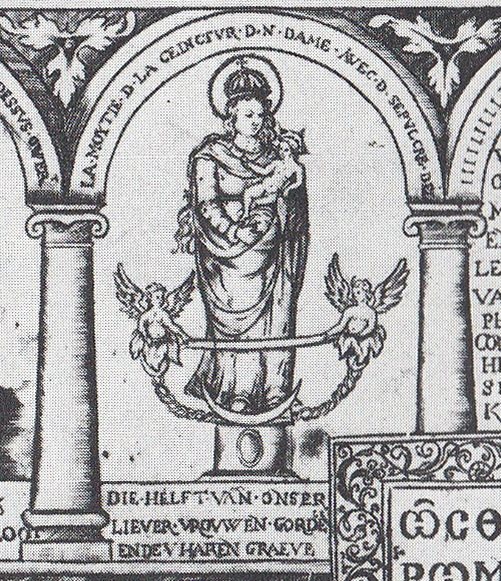 Treasury of the Basilica of Our Lady, Maastricht, the Netherlands. Detail of a "display form" (Dutch: toningsformulier), listing the main relics of the church (early 17th c., probably 1607). Here: the reliquary of the girdle of the Virgin Mary.